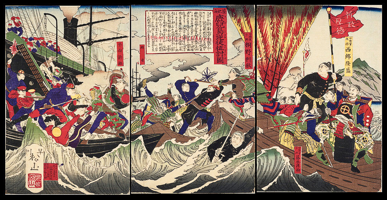 Kagoshima_battle during the Satsuma rebellion, Woodblock print (nishiki-e); ink and color on paper